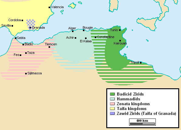 The Zirid realm after the Hammadid secession (1018) and before the Arab Hilali invasion (1052)